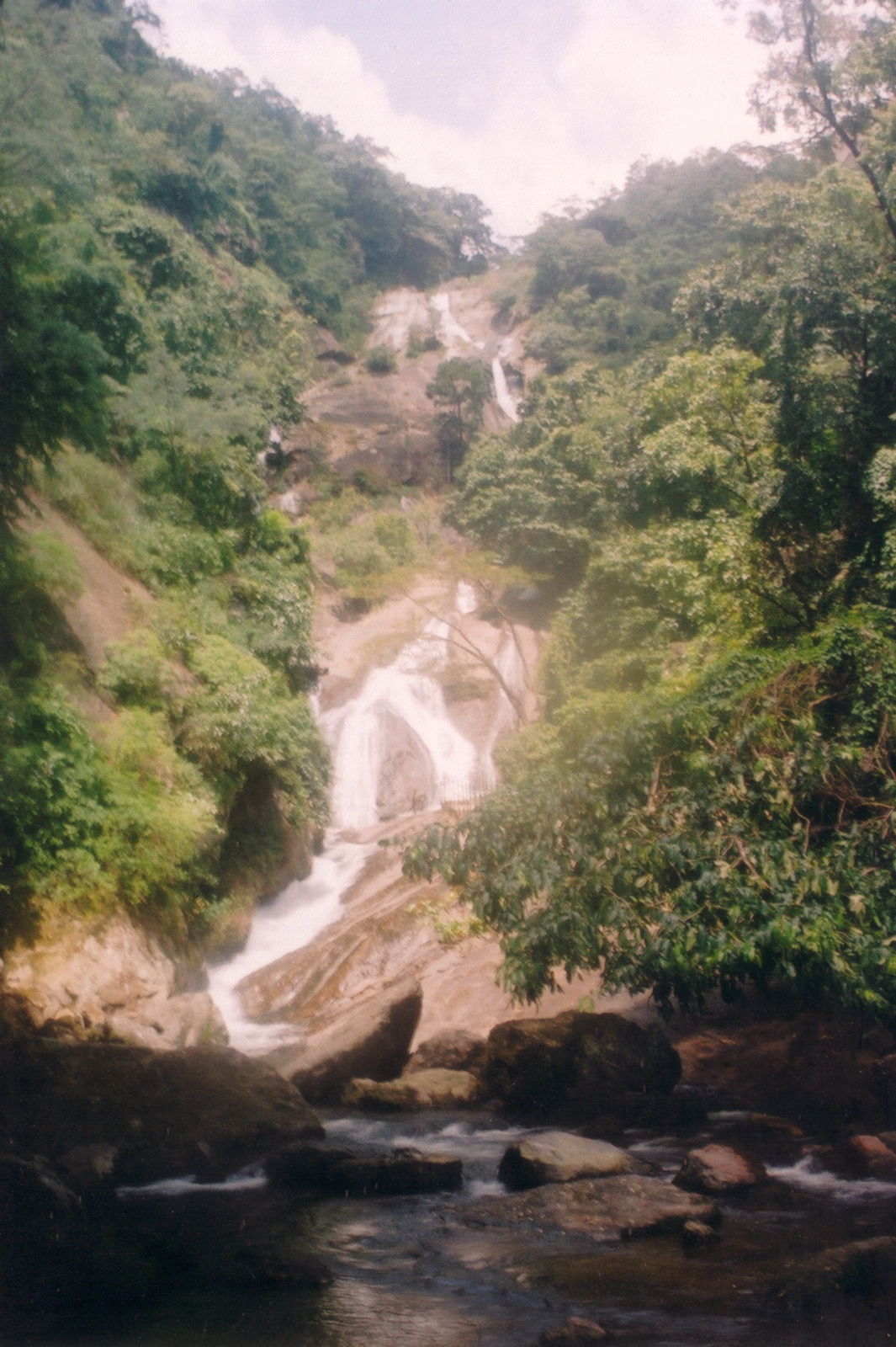 Siruvani Falls - view of falls above the bathing area. This waterfall is located near Coimbatore, Tamil Nadu, India.